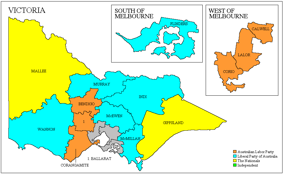 map of Victorian electorates